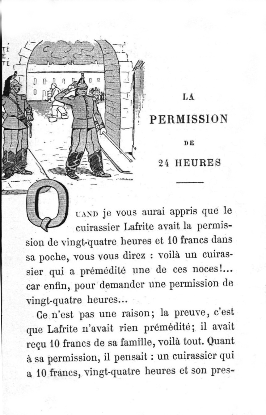 La Permission de 24 heures in Jules Moinaux & Eugène Cottin Le Monde ou l'on rit